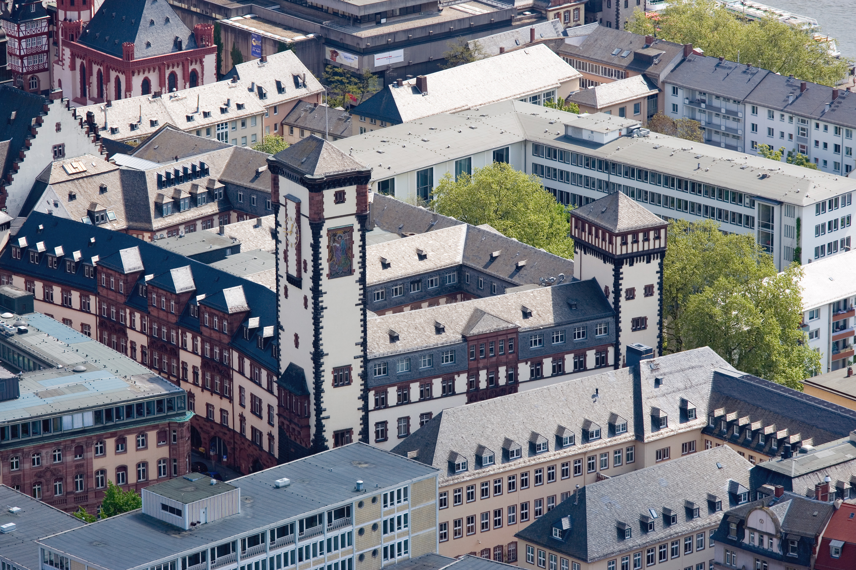 Frankfurt on the Main: Towers Kleiner Cohn (small Cohn) and Langer Franz (tall Franz) of the historistical New Town Hall as seen from the Maintower